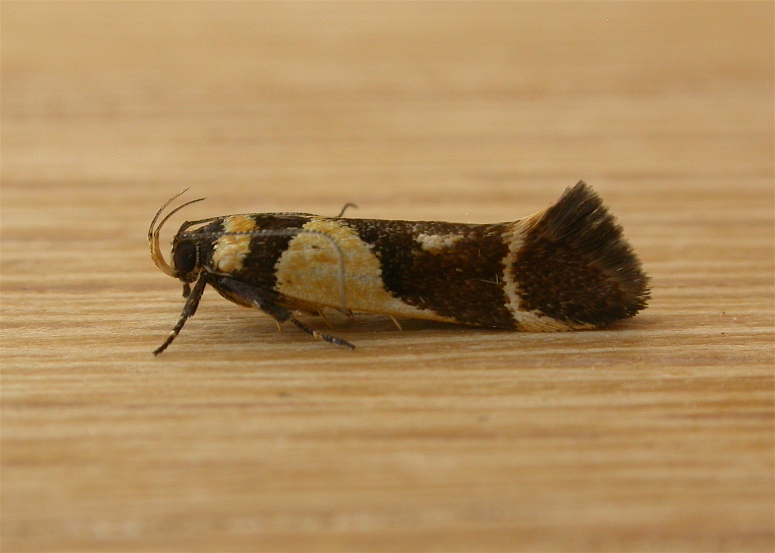 Macrobathra chrysotoxa Meyrick 1886, to MV light, Aranda ACT, 5/6 December 2008